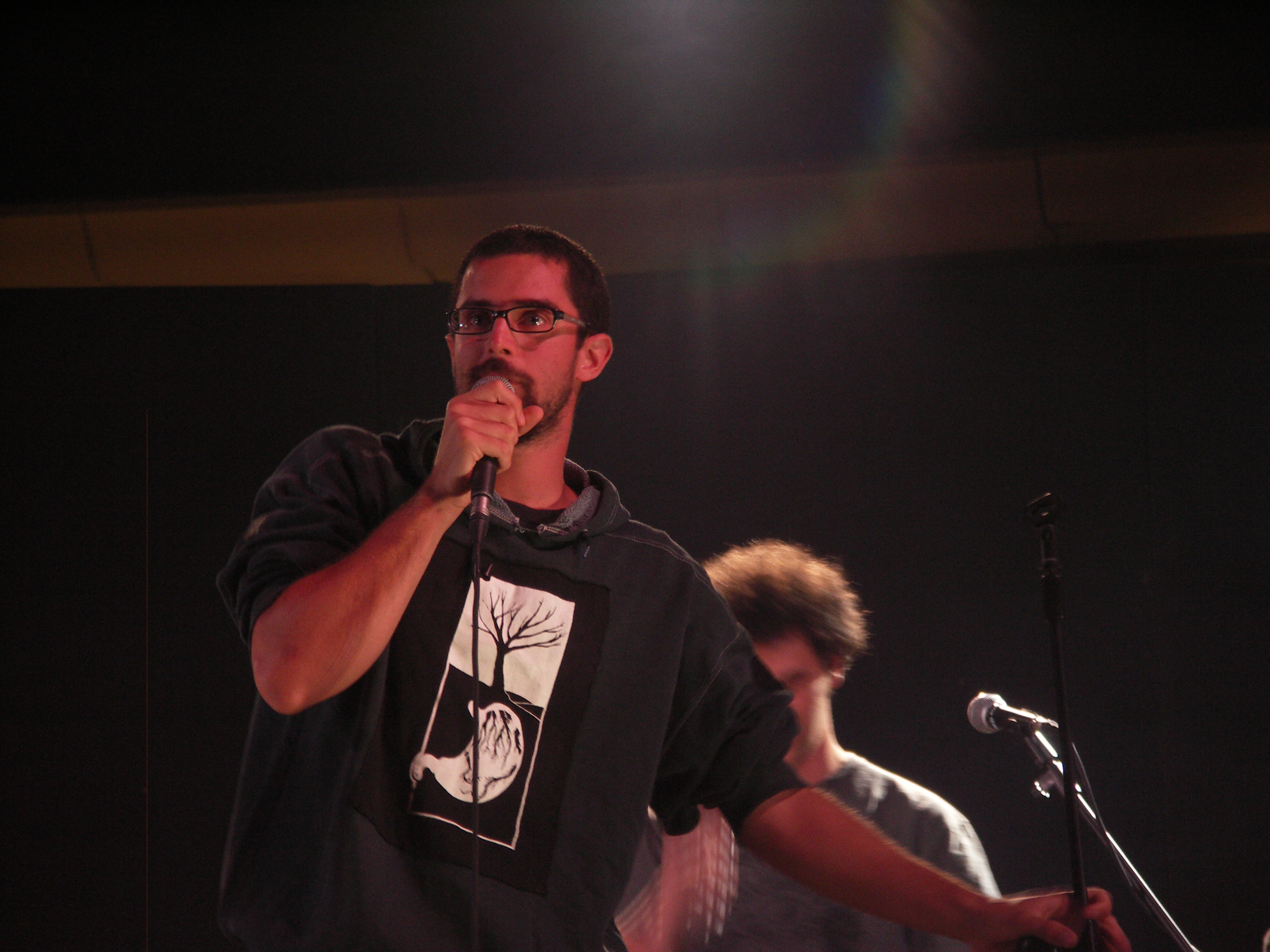 Uochi Toki (Napo at the mic, Rico is partially visible behind) performing at the Tafuzzy Days 2008.